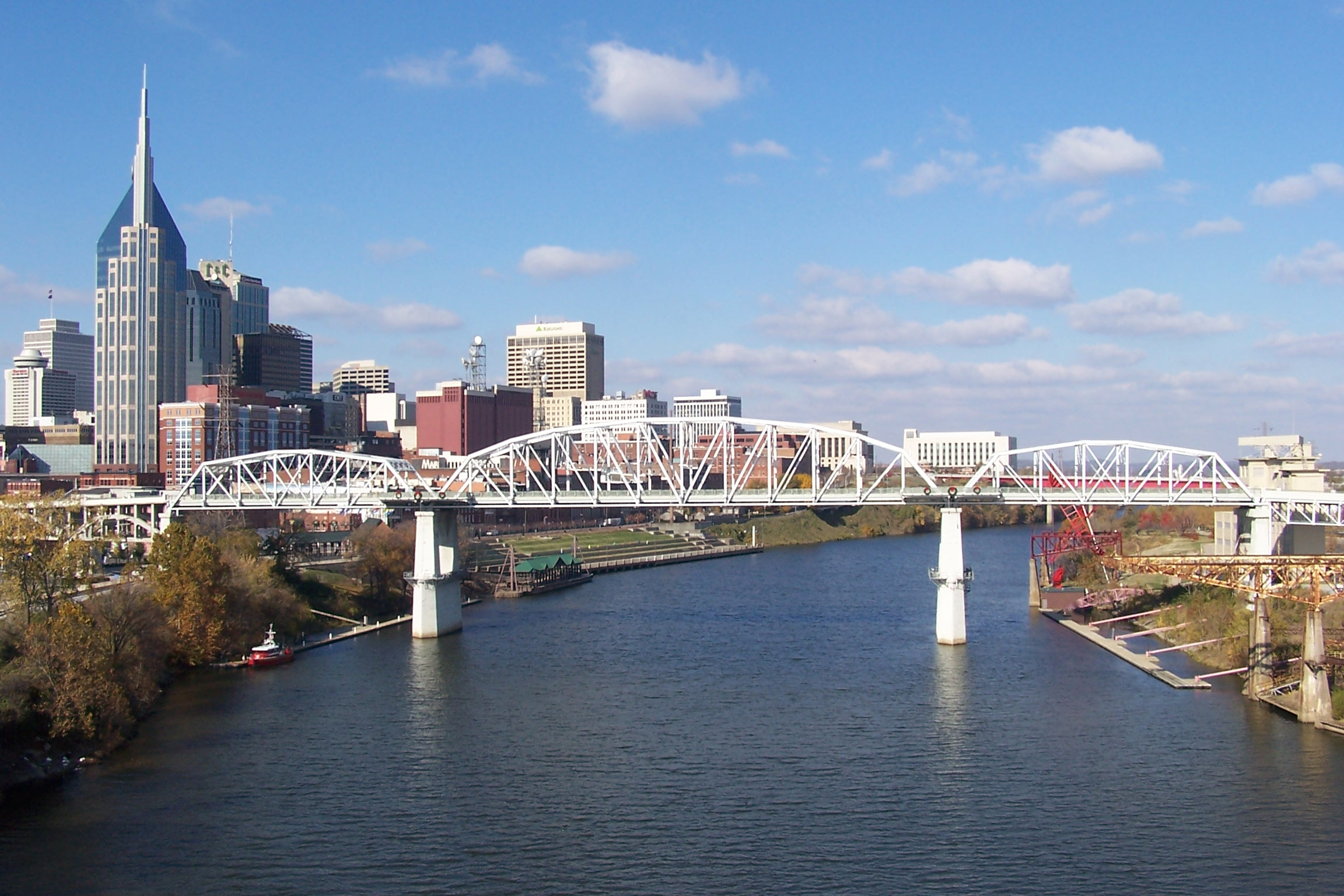 The Shelby Street Bridge in Nashville, Tennessee, as seen from the Gateway Bridge